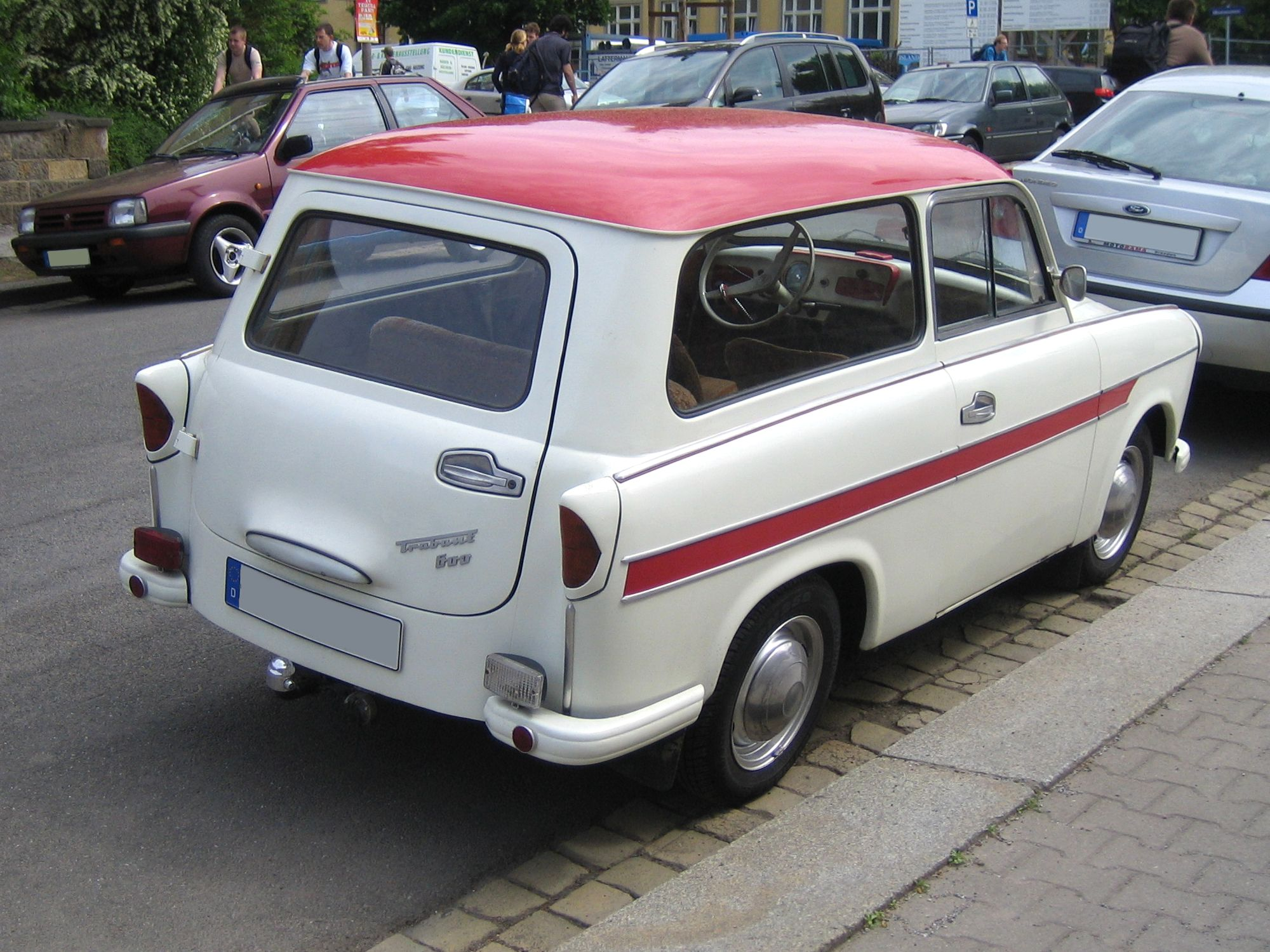 Trabant 600 station wagon (rear view)